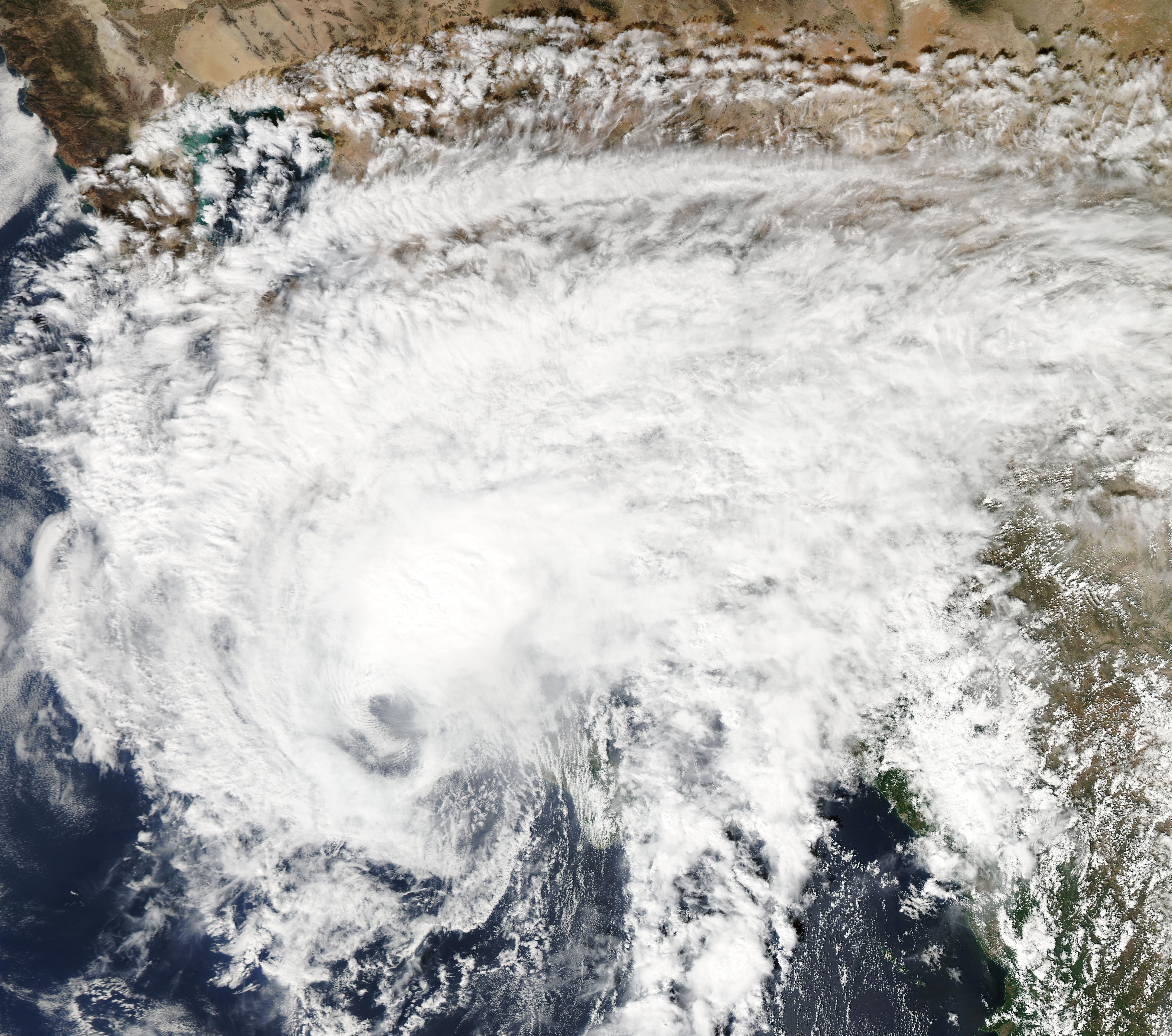 250m resolution 'true-color' image of Hurricane Paul (2012) affecting areas of the Baja California Peninsula on October 16, 2012.